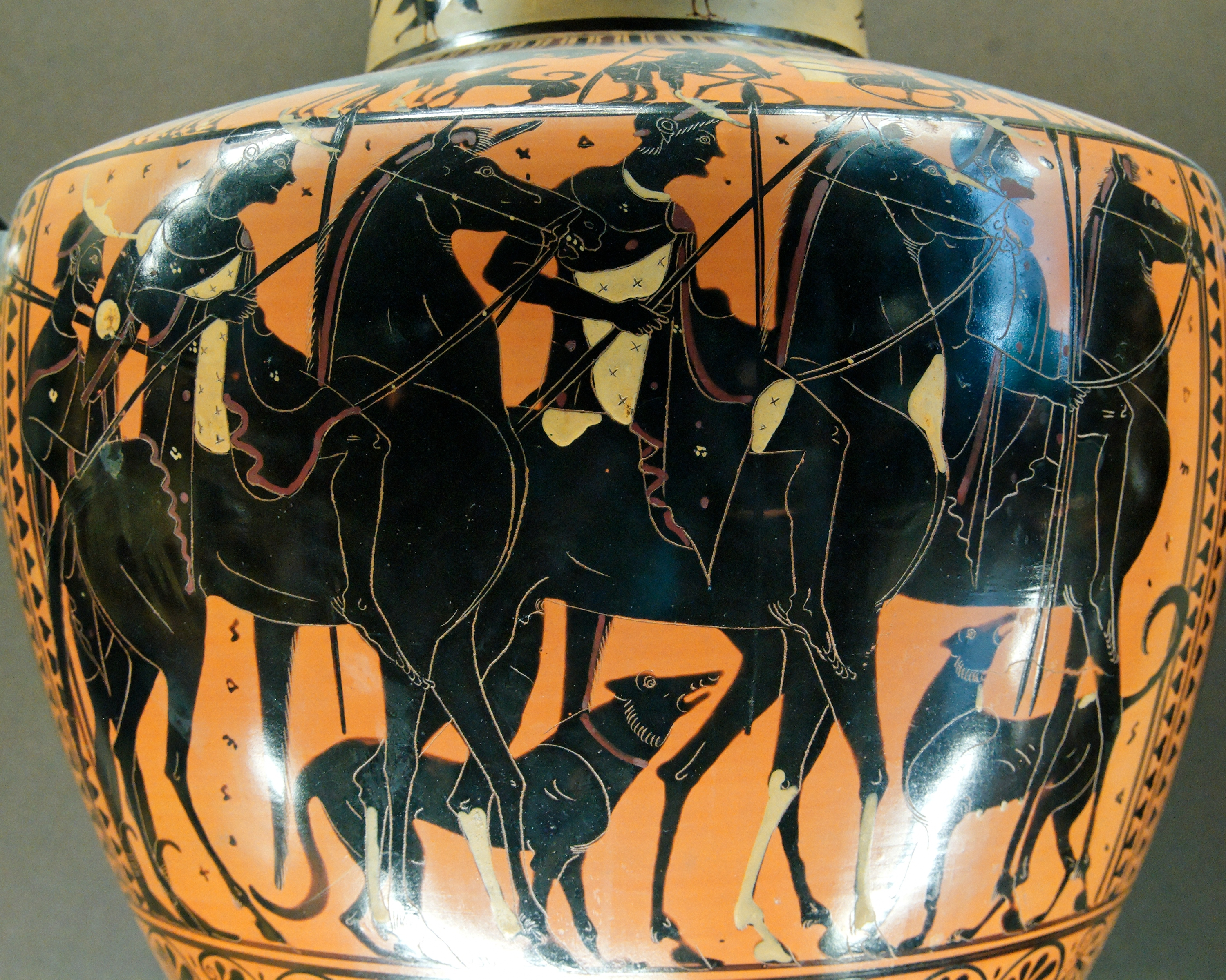 Riders. Belly of an Attic black-figure hydria, ca. 510–500 BC. From Vulci.